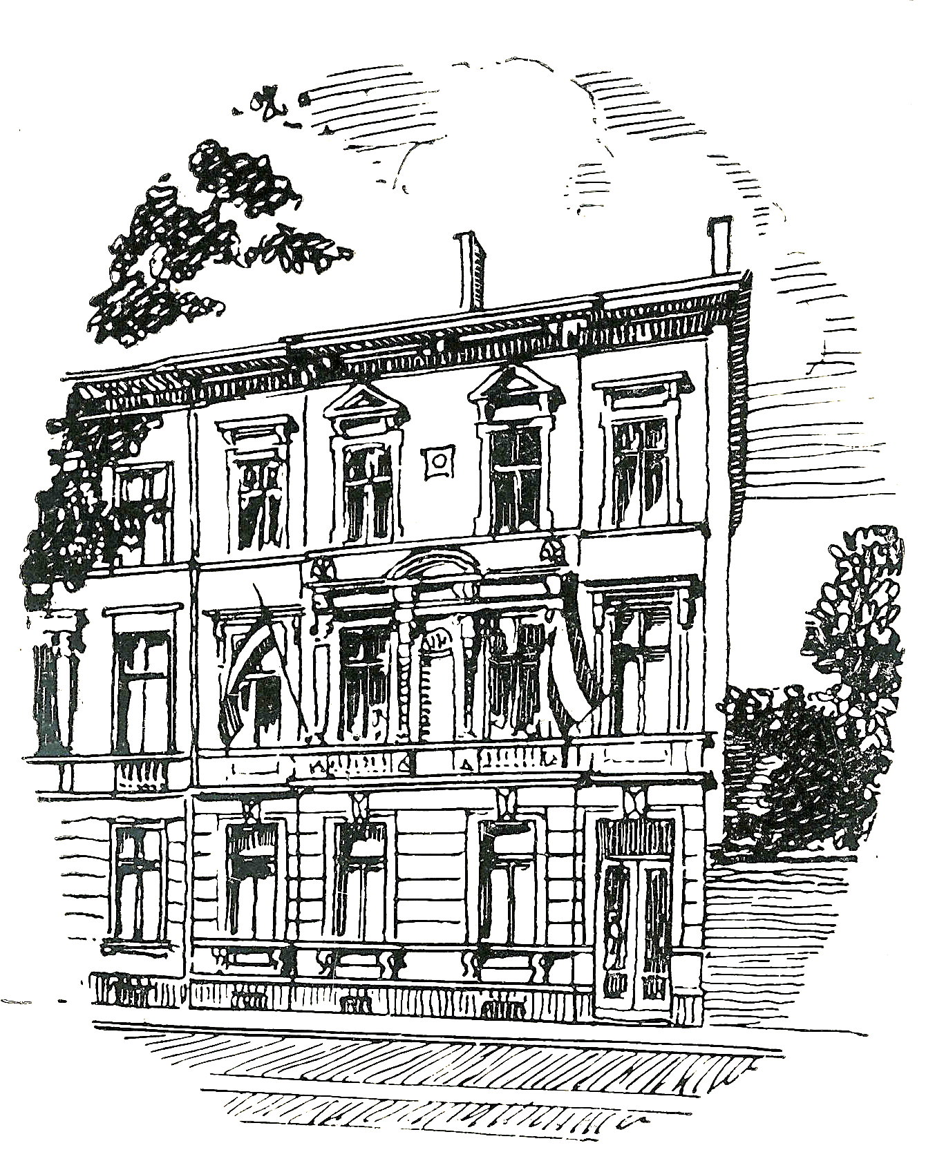 Former house of student fraternity Corps Guestphalia Bonn in Bonn/Germany, Baumschulallee 22, bought in summer 1894